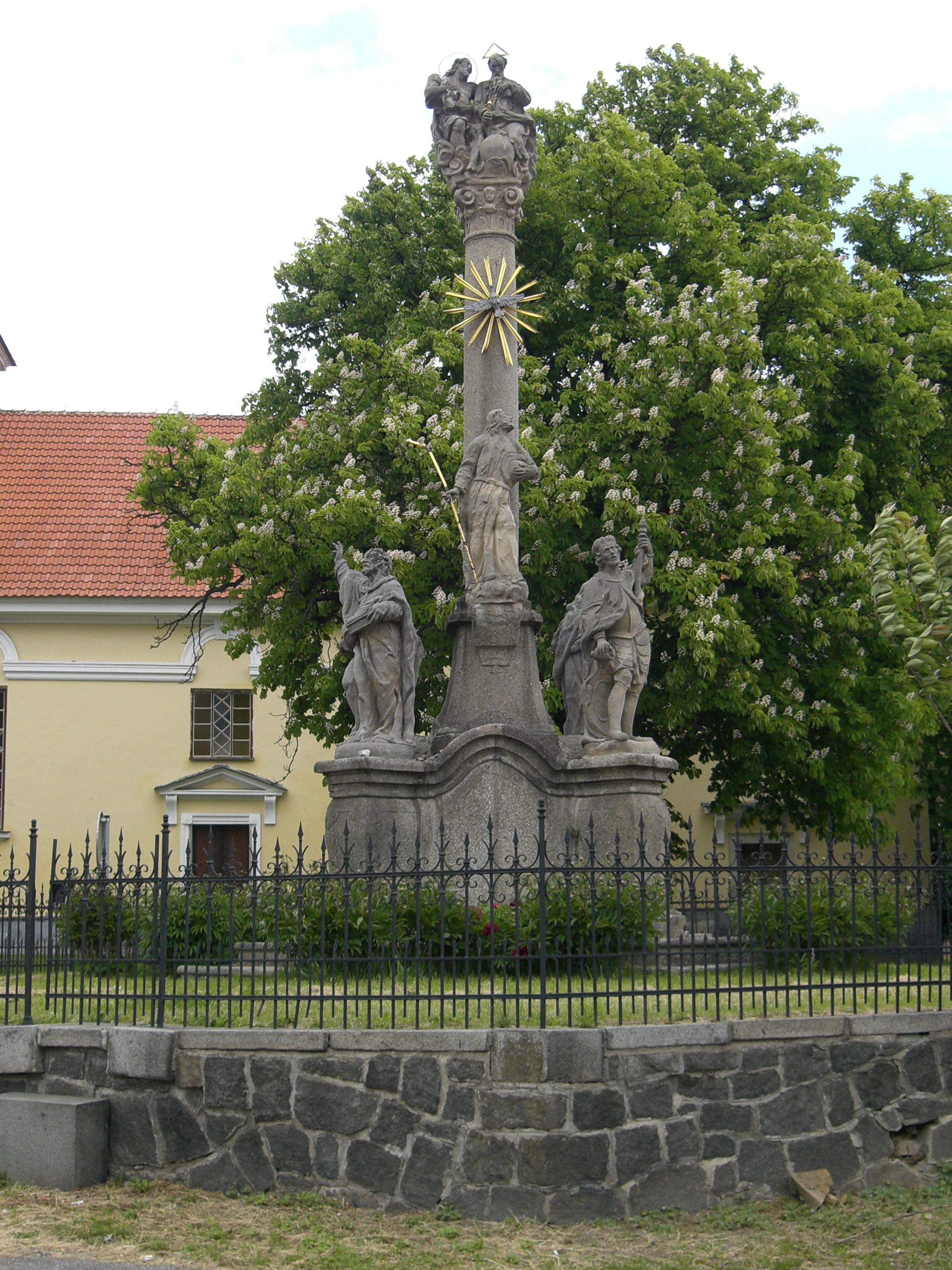 Čimelice village in Písek district, Czech Republic, a plague column.